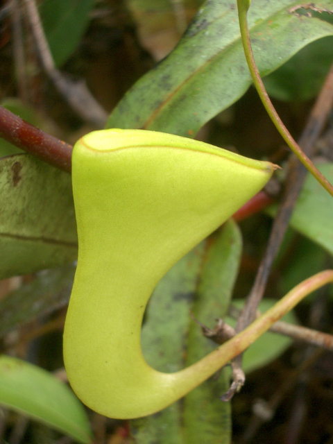 Nepenthes inermis from Mount Belirang